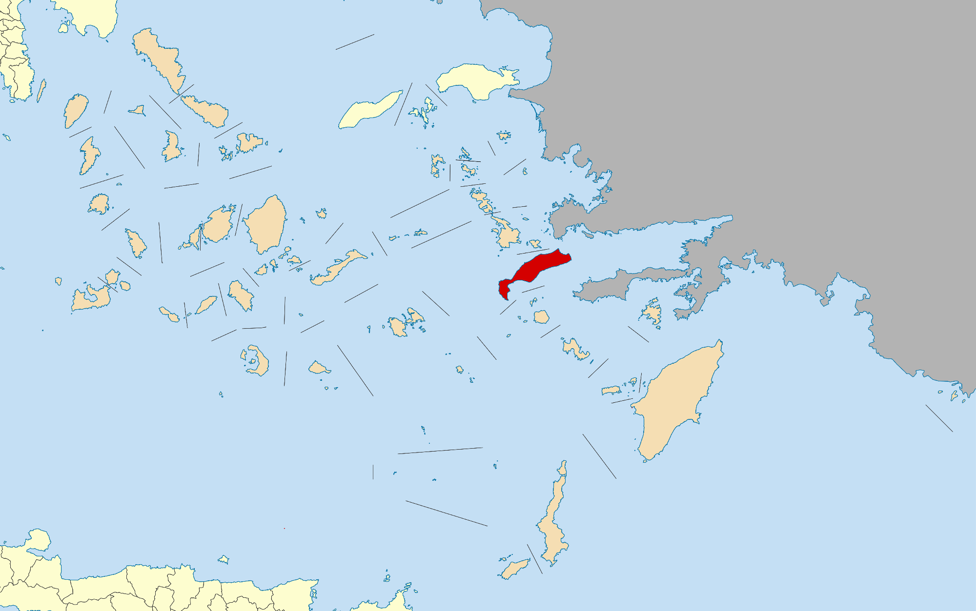 Locator map for Kos municipality in Greek region South Aegean (2011)